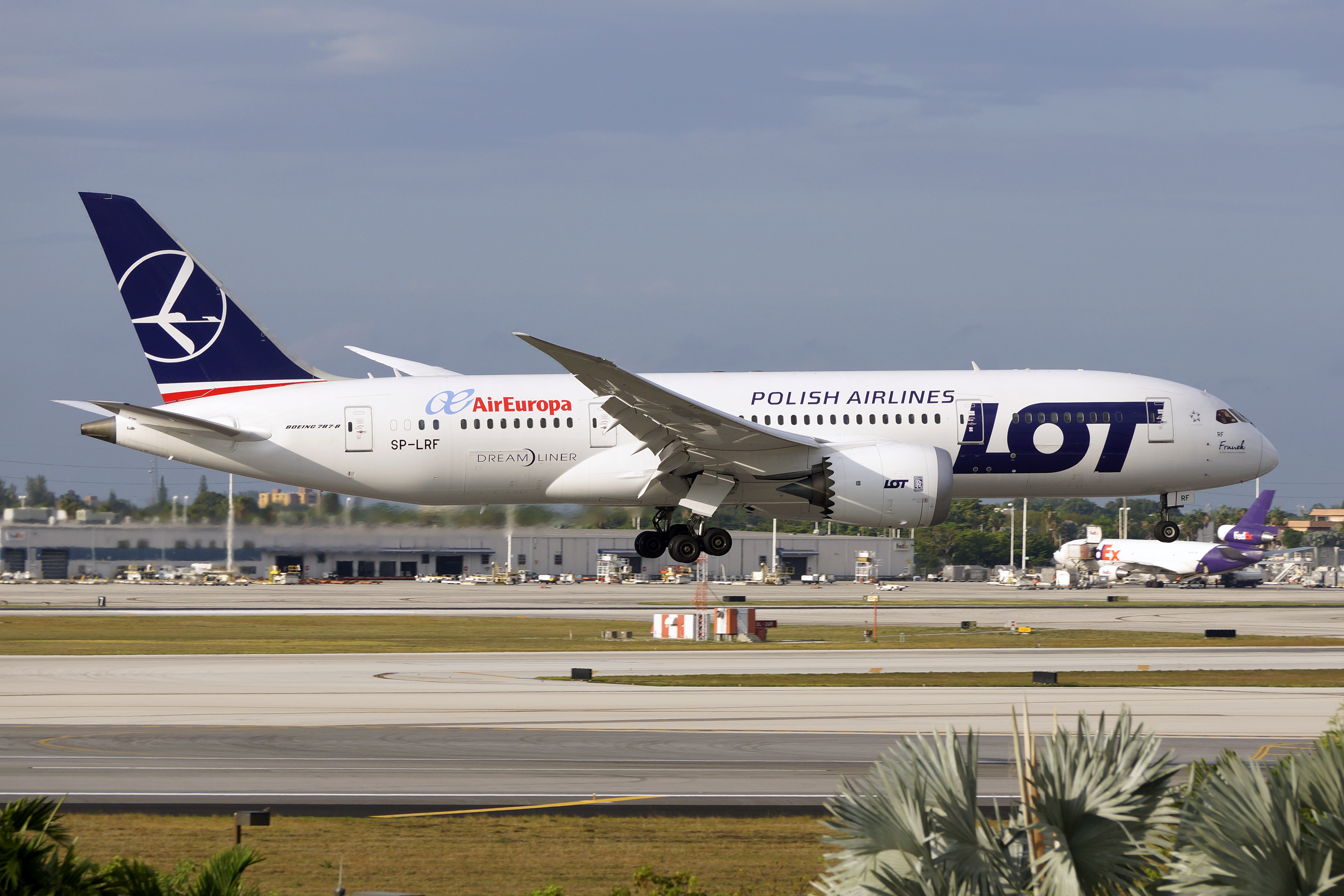 LOT Boeing 787 landing at Miami International Airport